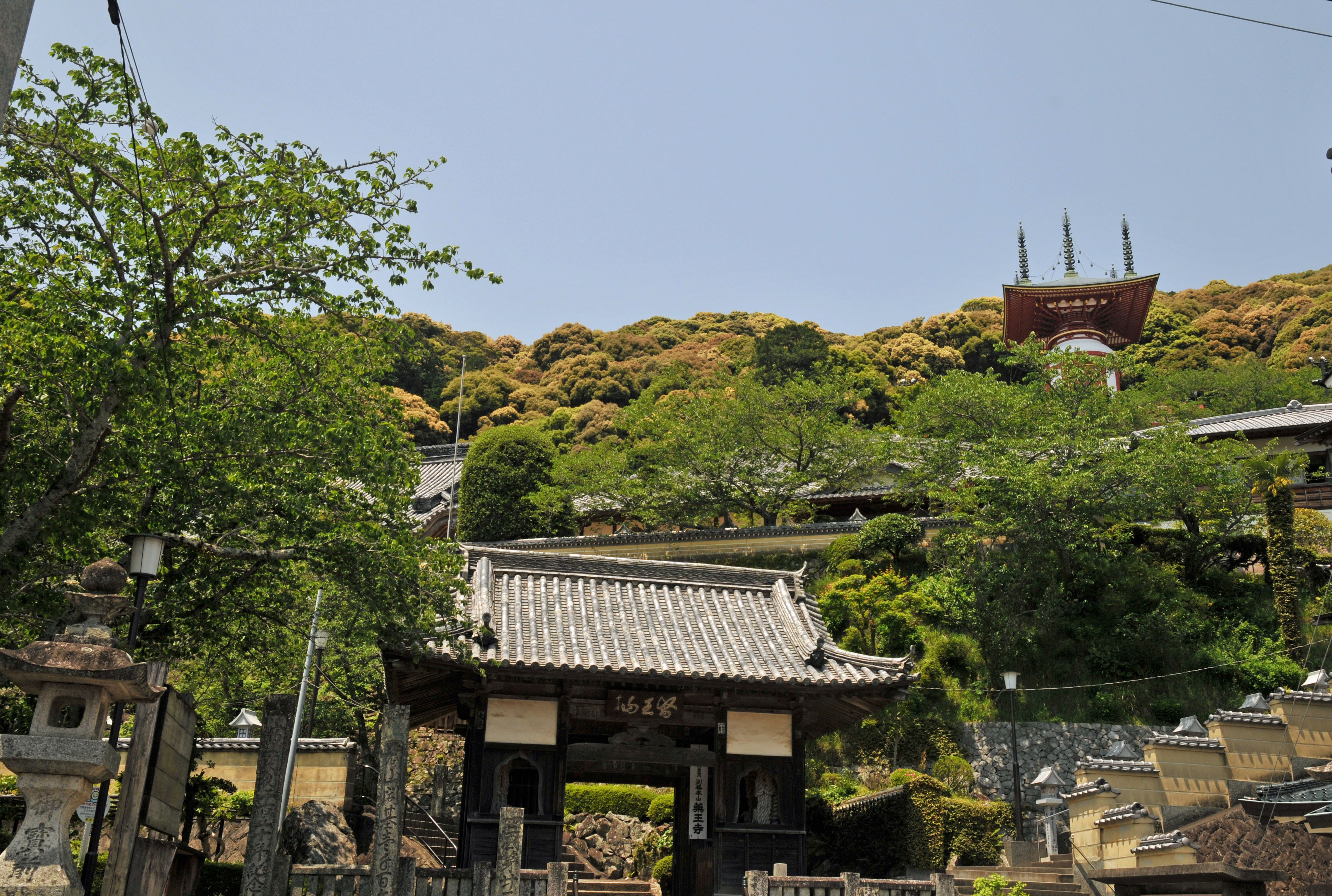 Yakuō-ji